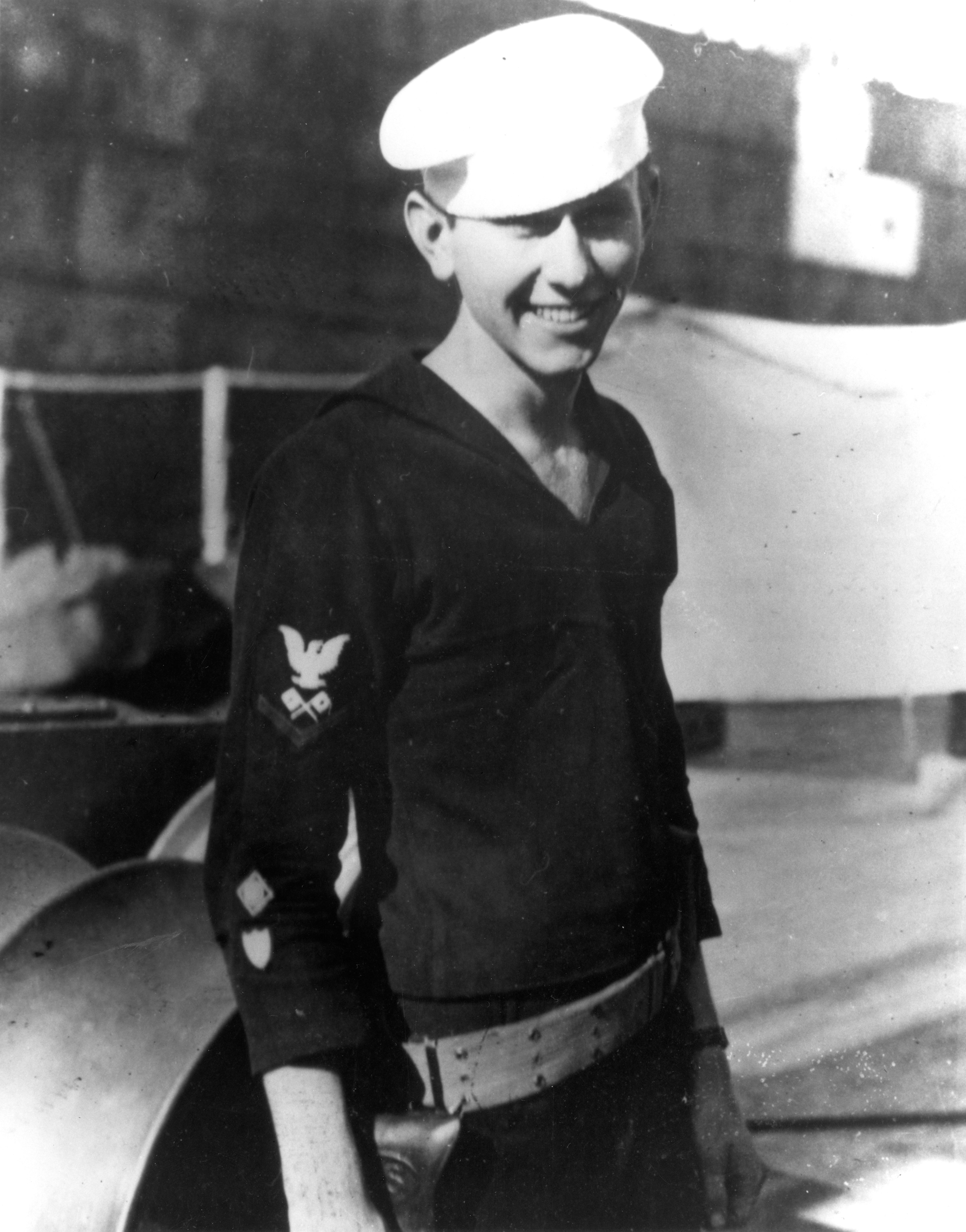 Depicted person: Douglas Albert Munro – Coast Guard Medal of Honor recipient